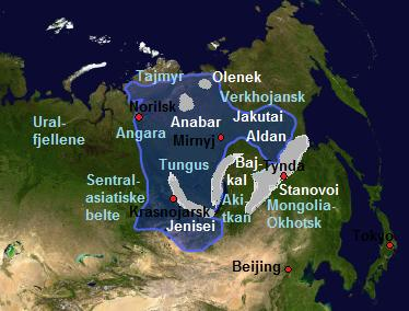 Location of the Siberian shield (and outcrops of the Siberian craton) on a satellite image of Asia.